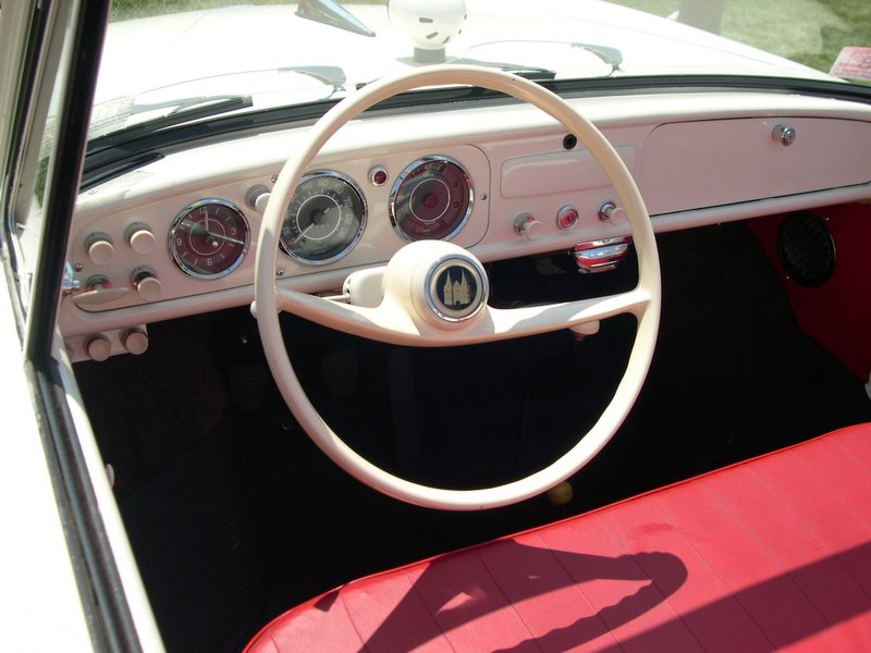 Amphicar